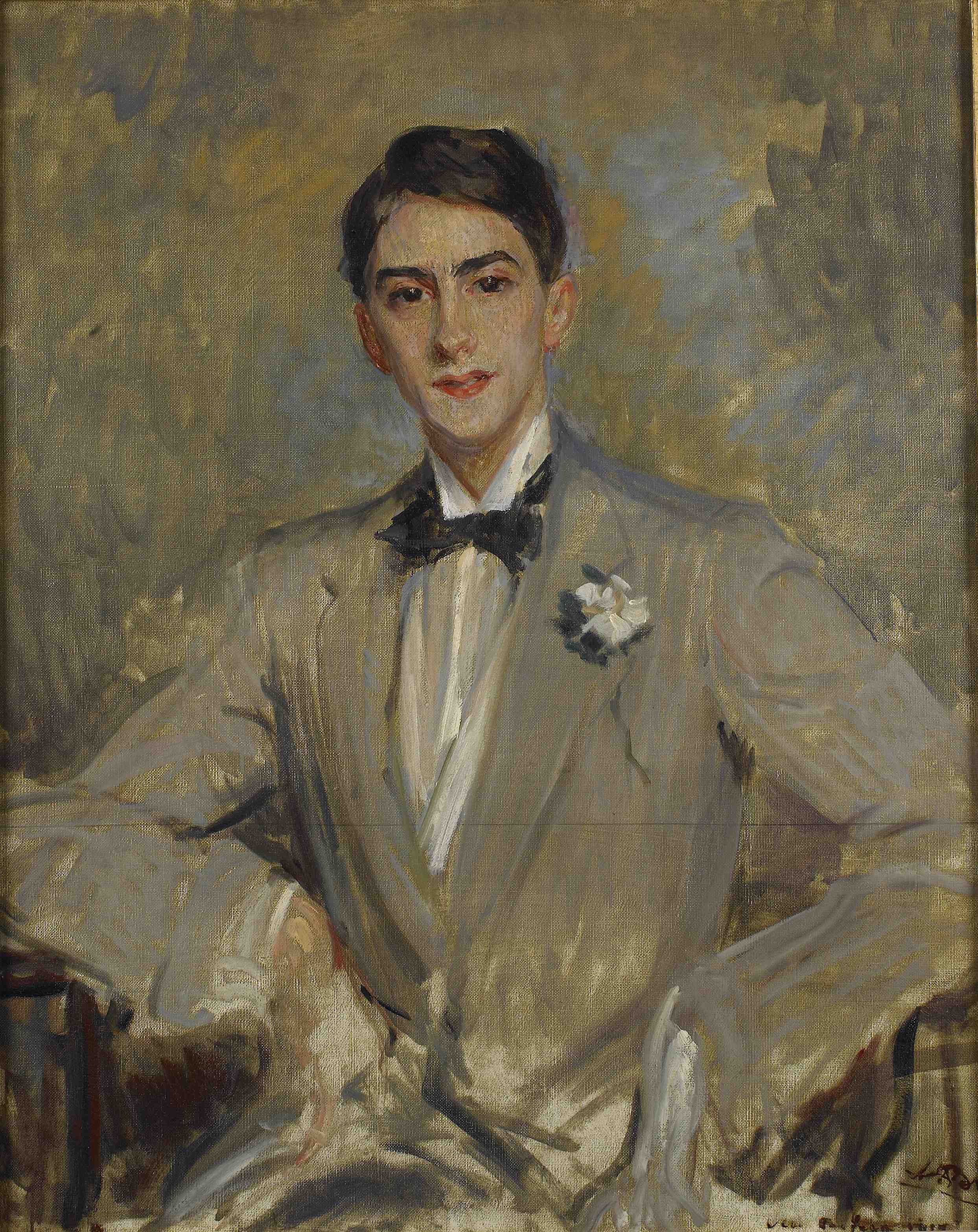 Portrait of Jean Cocteau